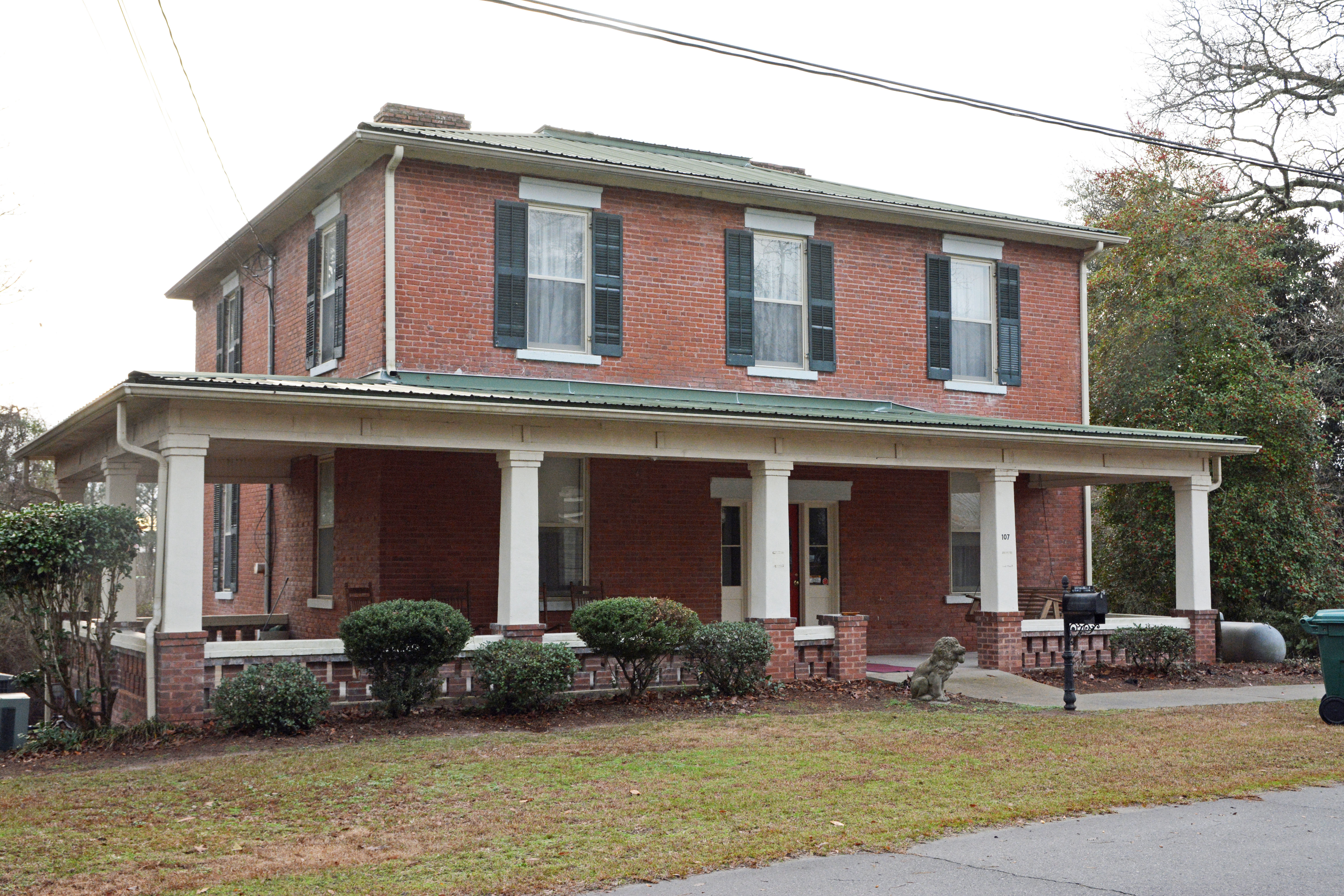 The Elam-Camp house in Gordon, Georgia, U.S.